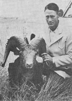 Jim Hart from South Dakota, displays an Audubon Bighorn Sheep (Ovis canadensis auduboni) shot on Sheep Mountain in 1903 by Charley Jones.